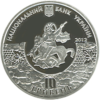 The obverse of commemorative silver coin of Ukraine "1800 years of Sudak" (2012)